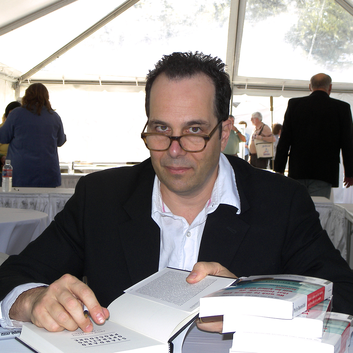 Author Philip Gourevitch at the 2008 Texas Book Festival, Austin, Texas, United States.